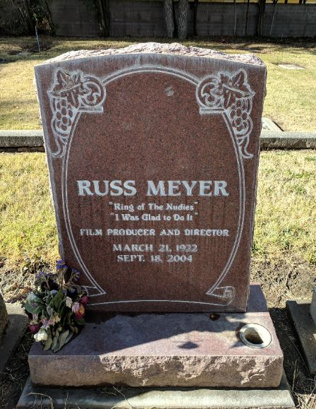 This is a photograph of the gravestone of American filmmaker Russ Meyer. It is located in the Stockton Rural Cemetery in Stockton, California, USA.